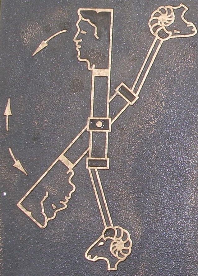 Hornsby water clock: detail of plaque showing diagram showing general layout of Greek clepsydra.